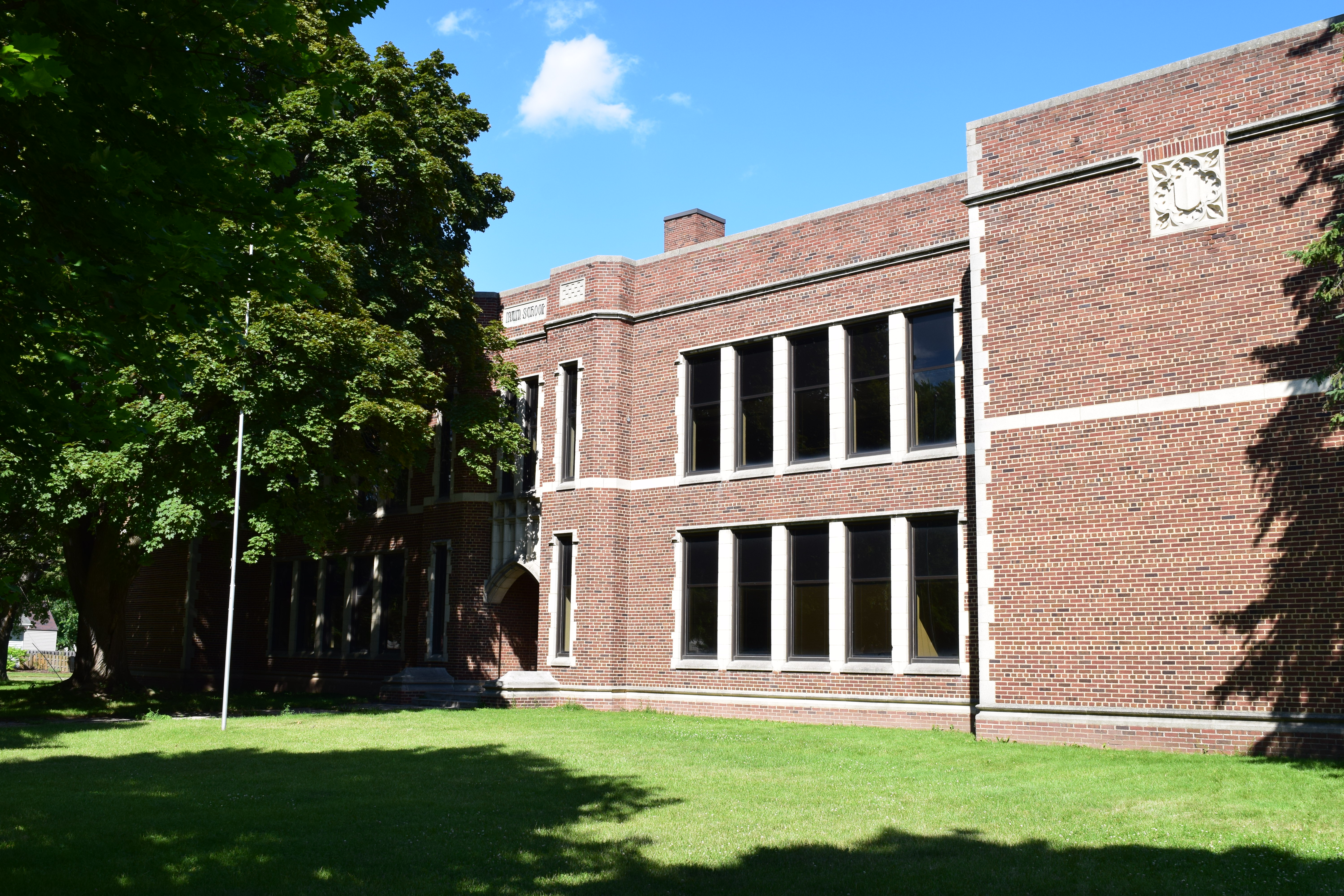 The Irwin School in De Pere, Wisconsin. The school is part of the North Michigan Street-North Superior Street Historic District.